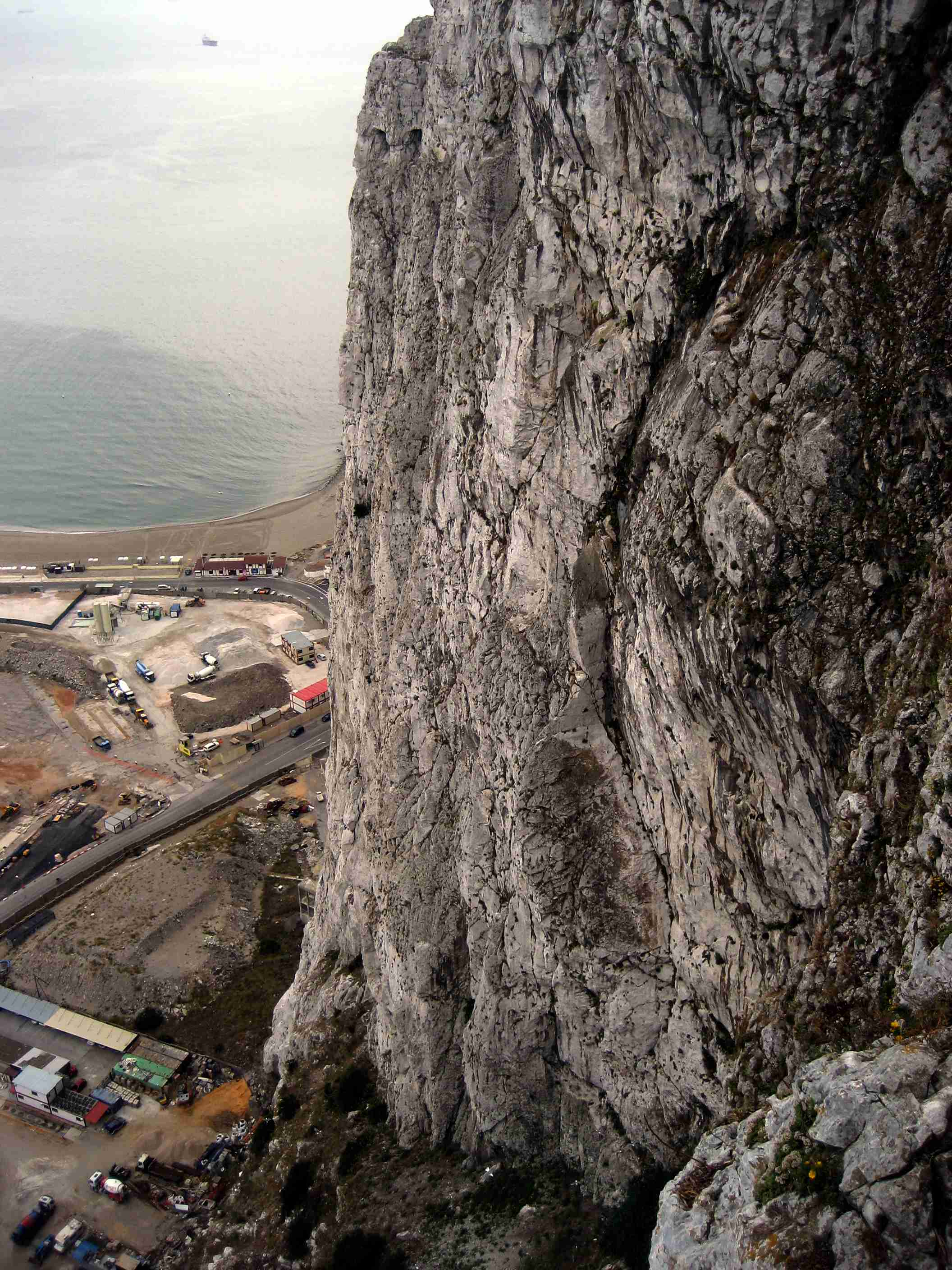 The shear northern face of the Rock of Gibraltar.